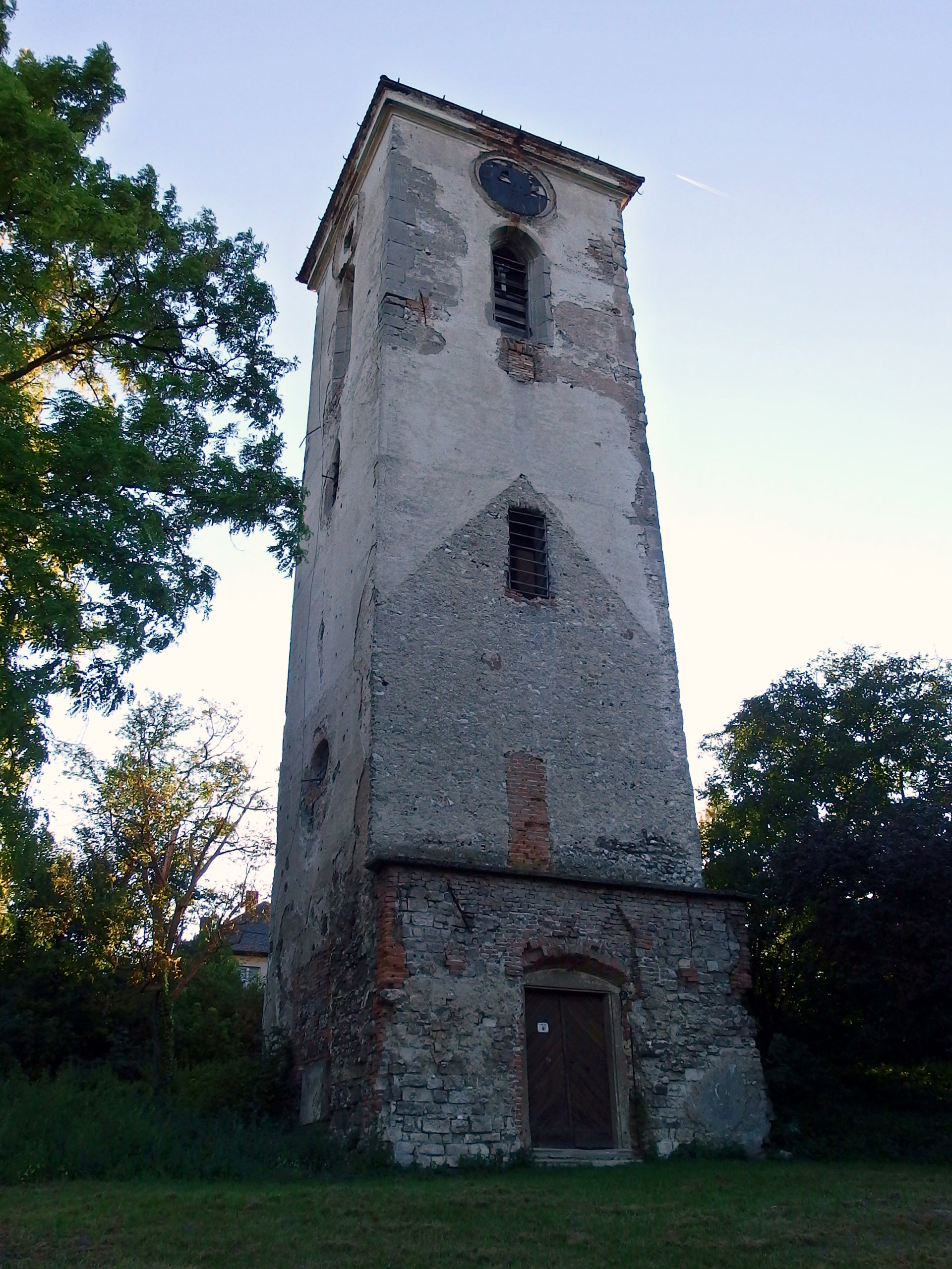 Church tower in village Vál in Hungary